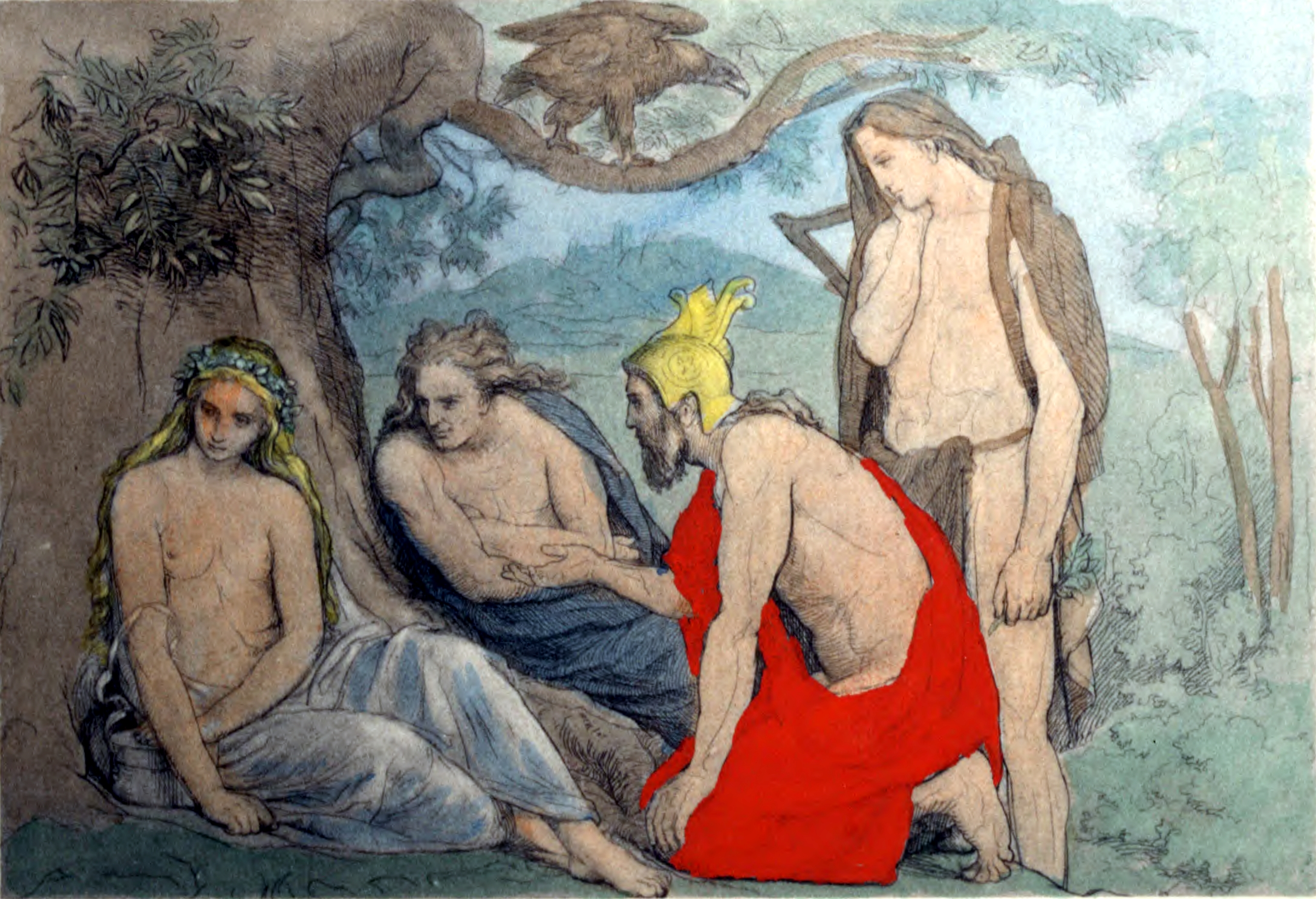 From left to right: Iðunn, Loki, Heimdallr and Bragi. Illustration of a scene from the poem Hrafnagaldr Óðins.